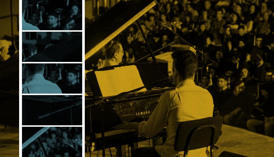 Lander Institute 2013 Graduation Ceremony